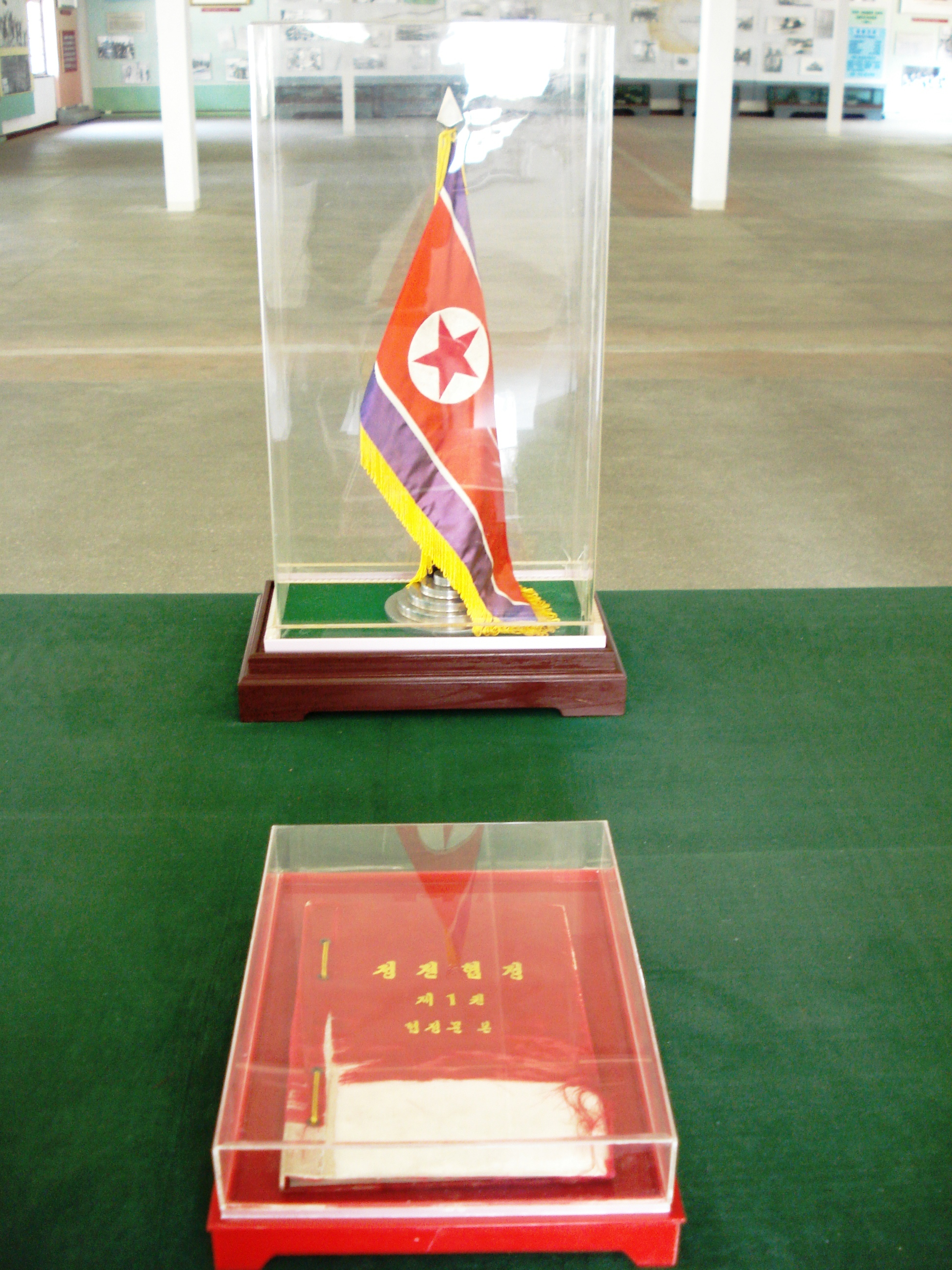 Armistice Agreement, DPR Korea